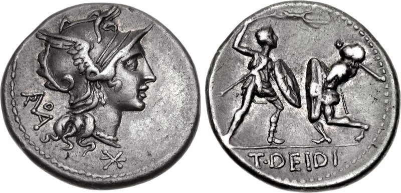 T. Didius. 113-112 BC. AR Denarius (19mm, 3.89 g, 3h). Rome mint. Head of Roma right, wearing winged helmet, ornamented with griffin’s head; the visor in three pieces and peaked; wearing triple-drop earring and pearl necklace, hair arranged in three symmetrical locks; ROMA monogram to left, mark of value below / Two gladiators fighting, each holding shield in left hand, one on left attacks with flail in right hand, the other on right attacks with staff or sword in right hand; T • DEIDI in exergue. Crawford 294/1; Sydenham 550; Kestner 2505; BMCRR Italy 530-1; Didia 2. VF, attractive dark toning. From the Archer M. Huntington Collection, ANS 1001.1.12661.